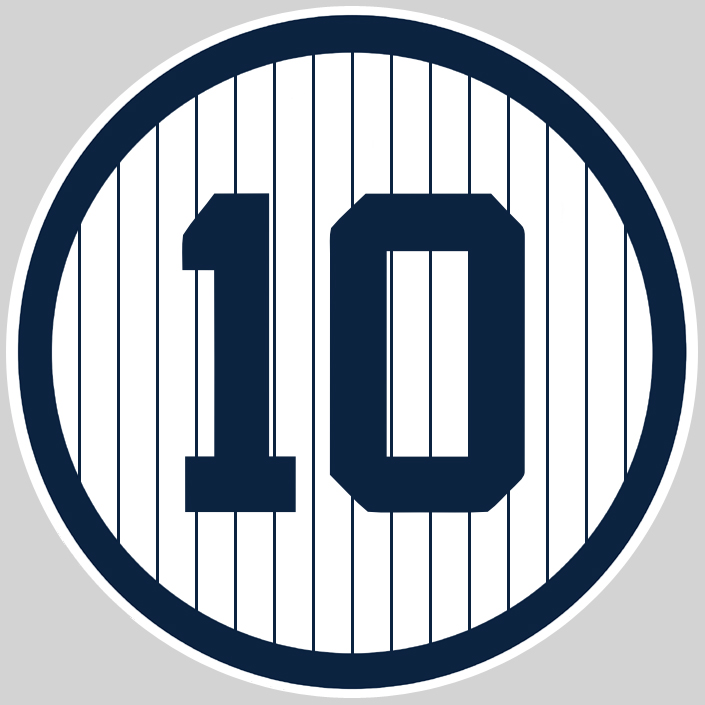 Image represents the current version of Phil Rizzuto's No. 10 seen in Monument Park in Yankee Stadium